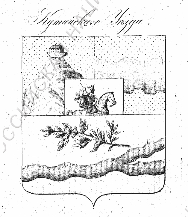 Coat of Arms of Kutaisi Uyezd (1843), Russian Empire